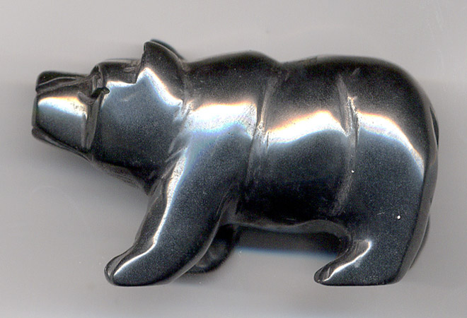 Hematite carving of a bear.